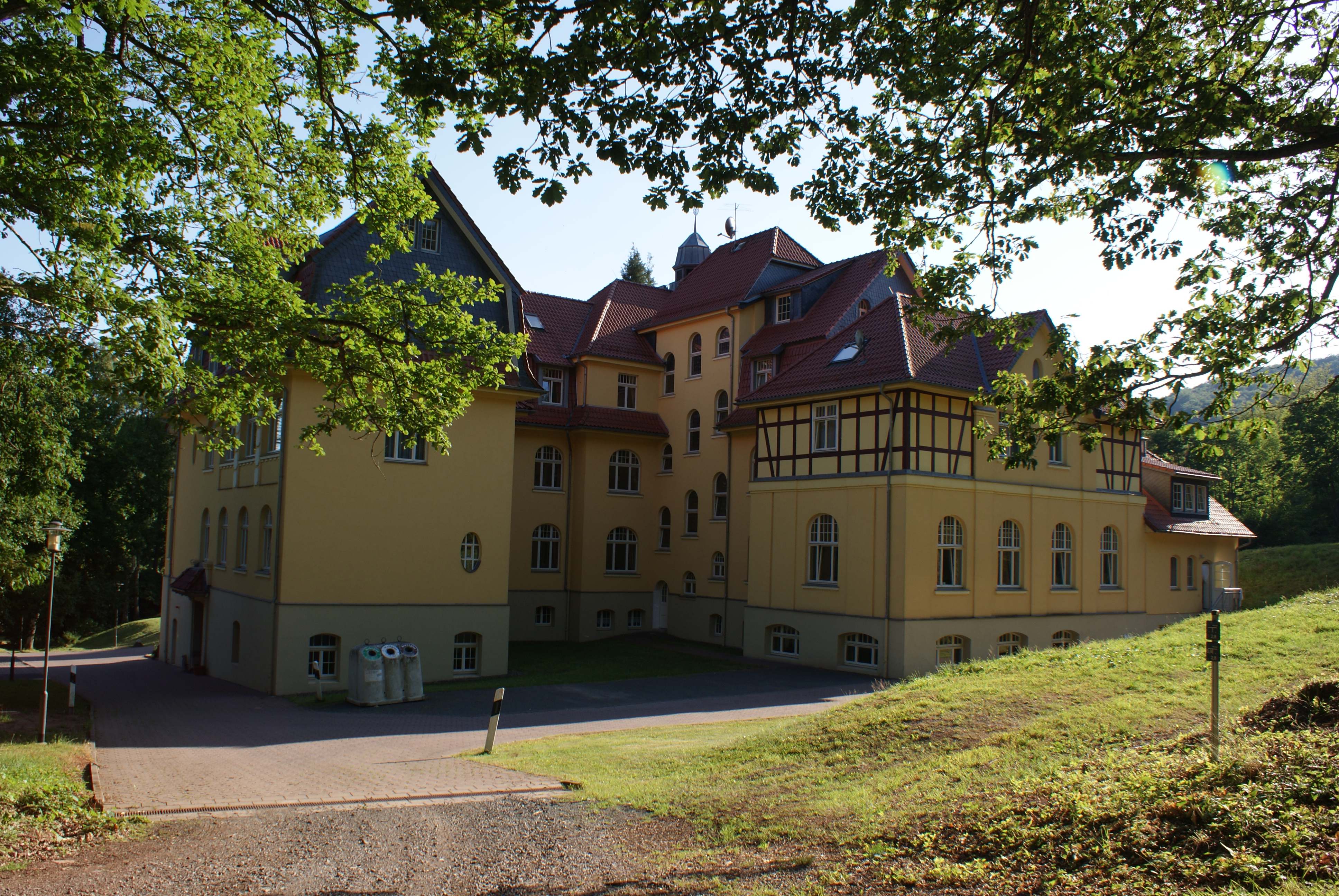 Parkhotel Suedharz